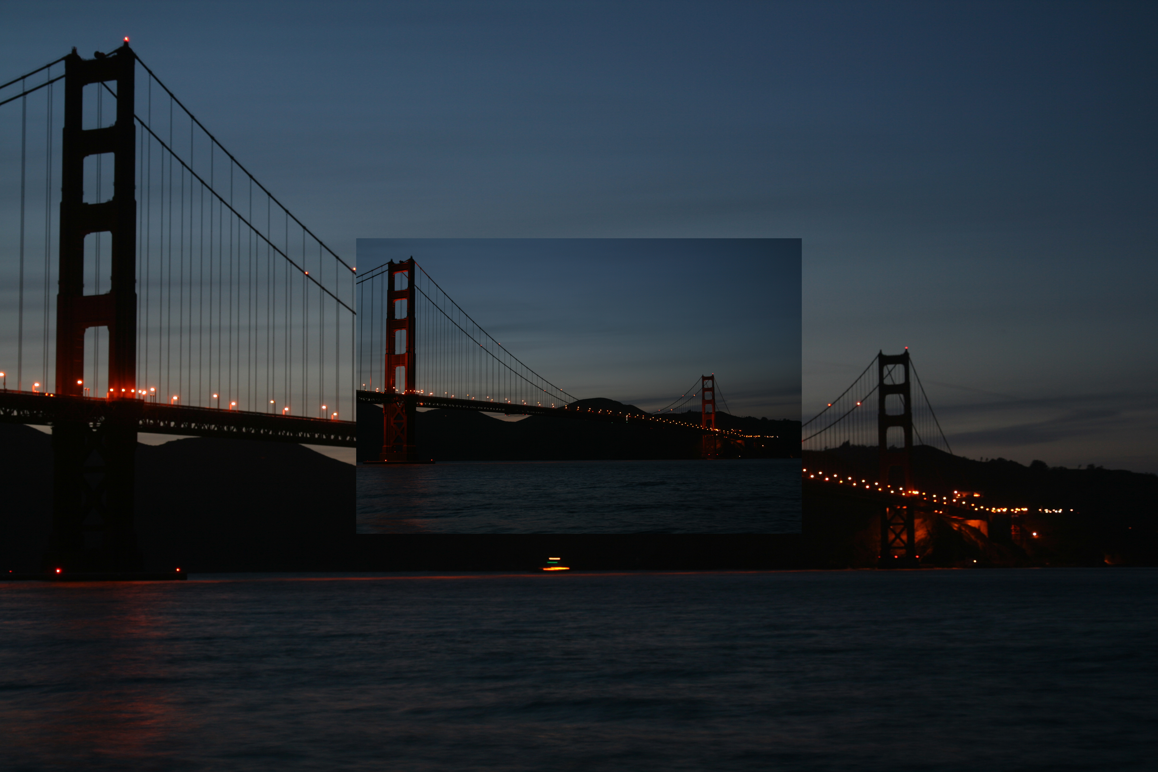 Golden Gate Bridge during Earth hour. Insert shows GGB before the power lights at his towers were turned off